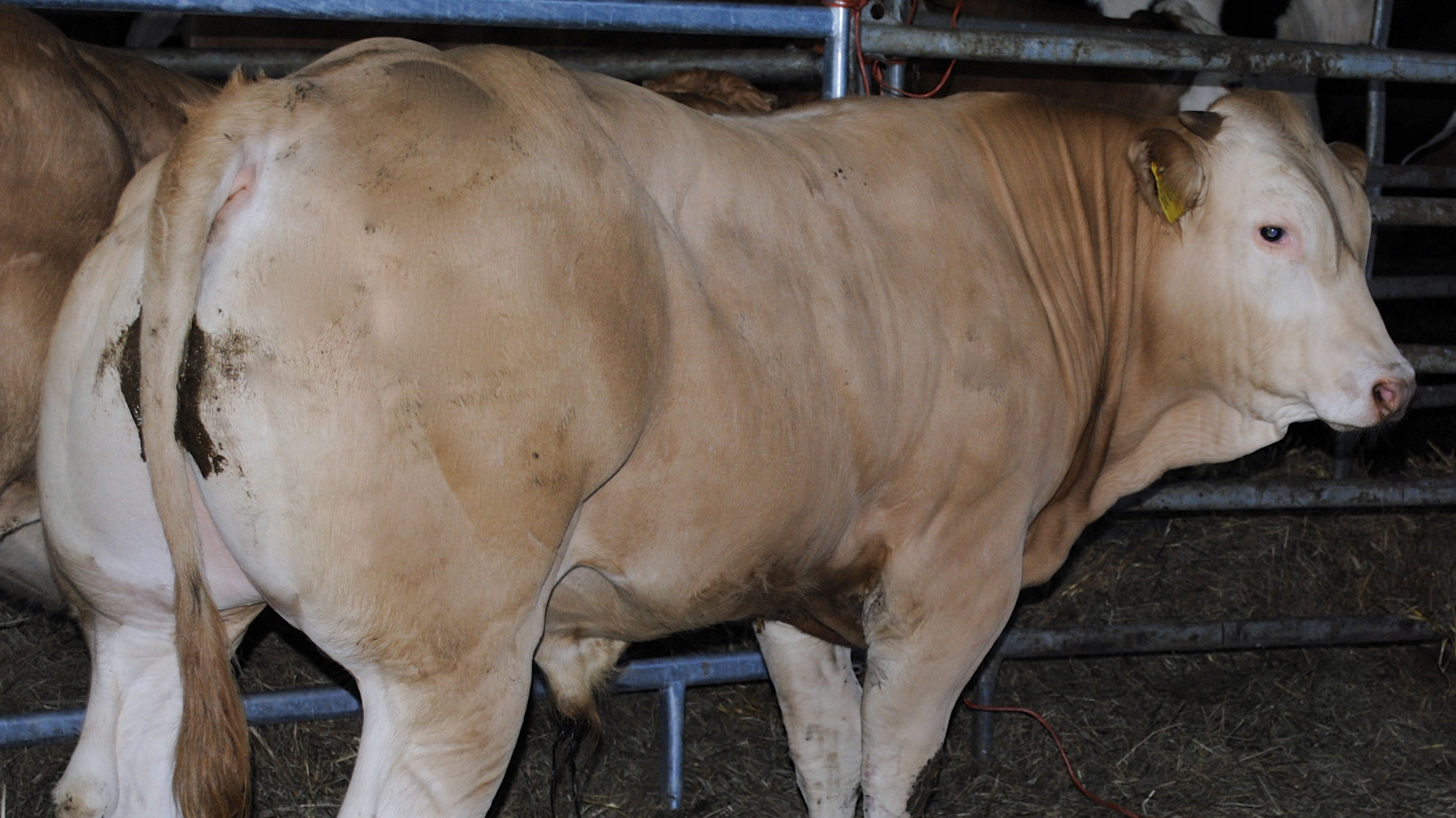 The Blonde d'Aquitaine breed shows a very good feed efficiency.